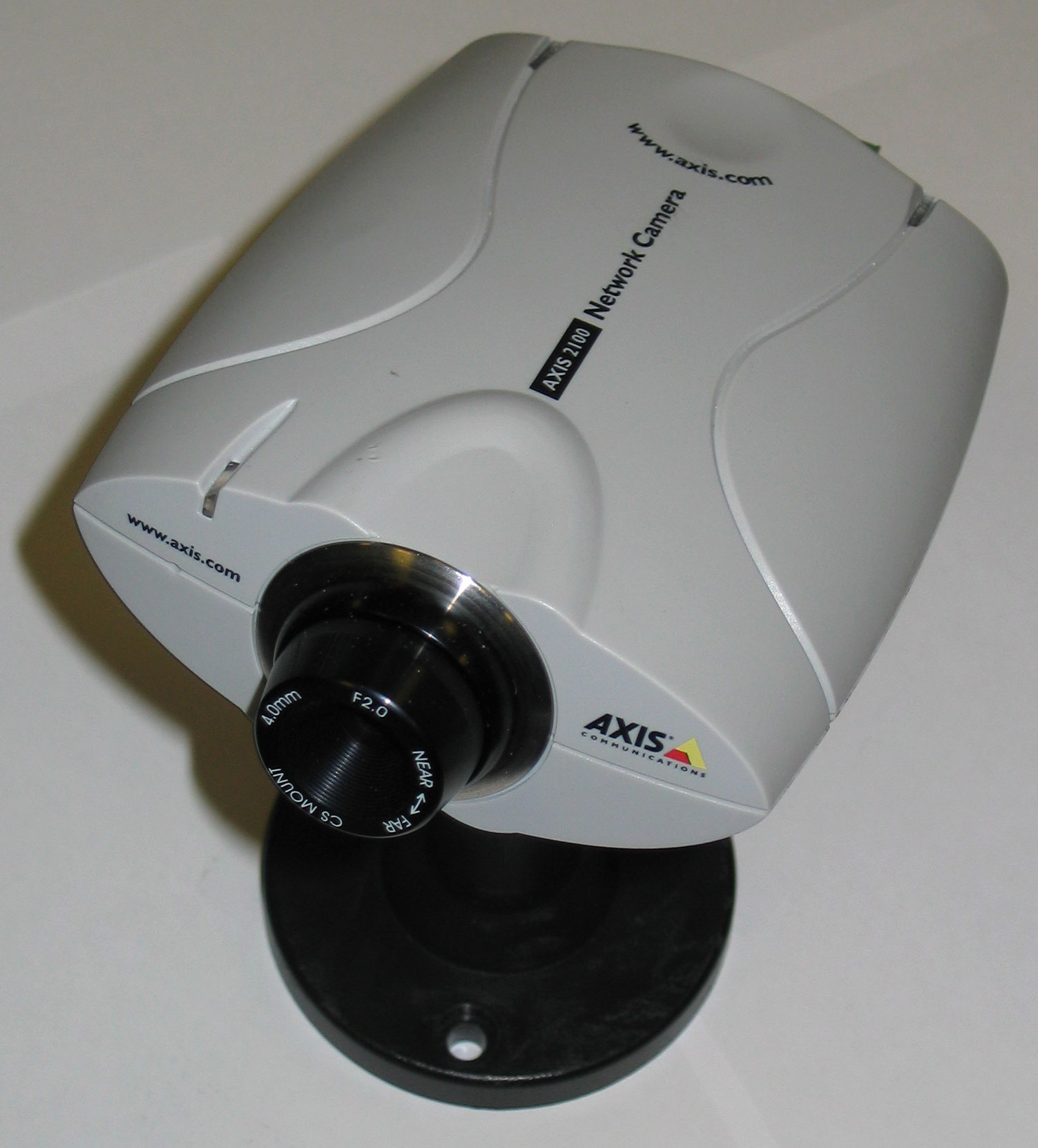 This image shows a network webcam, the Axis 2100. This camera can be connected directly to the internet by means of an RJ-45 connector on it's rear. The onboard HTTP server lets users connect directly to the camera to access images.